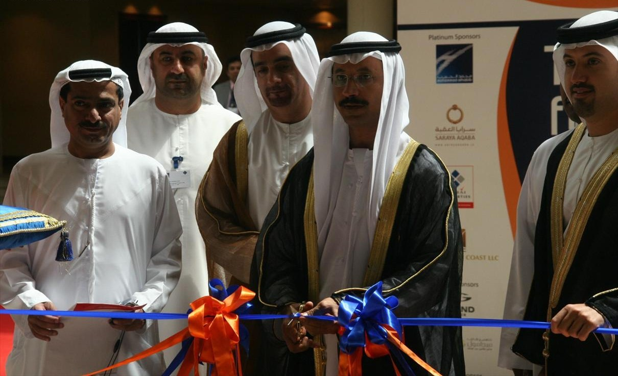 This is a photo of Sultan Ahmed bin Sulayem (the one cutting the ribbon) at the opening of Retail City 2007 in Sheikh Rashid Hall at the Dubai World Trade Centre Exhibition Complex in Dubai, United Arab Emirates on 3 June 2007.